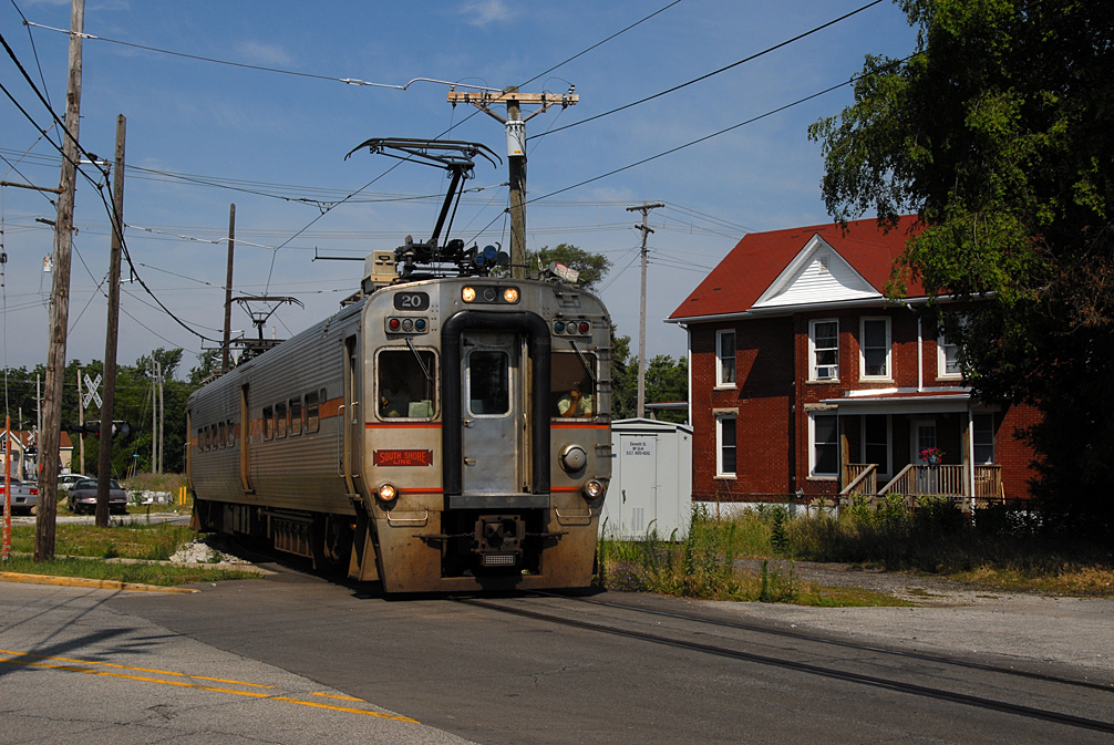 Turning onto 11th St Eastbound thru Michigan City, Indiana